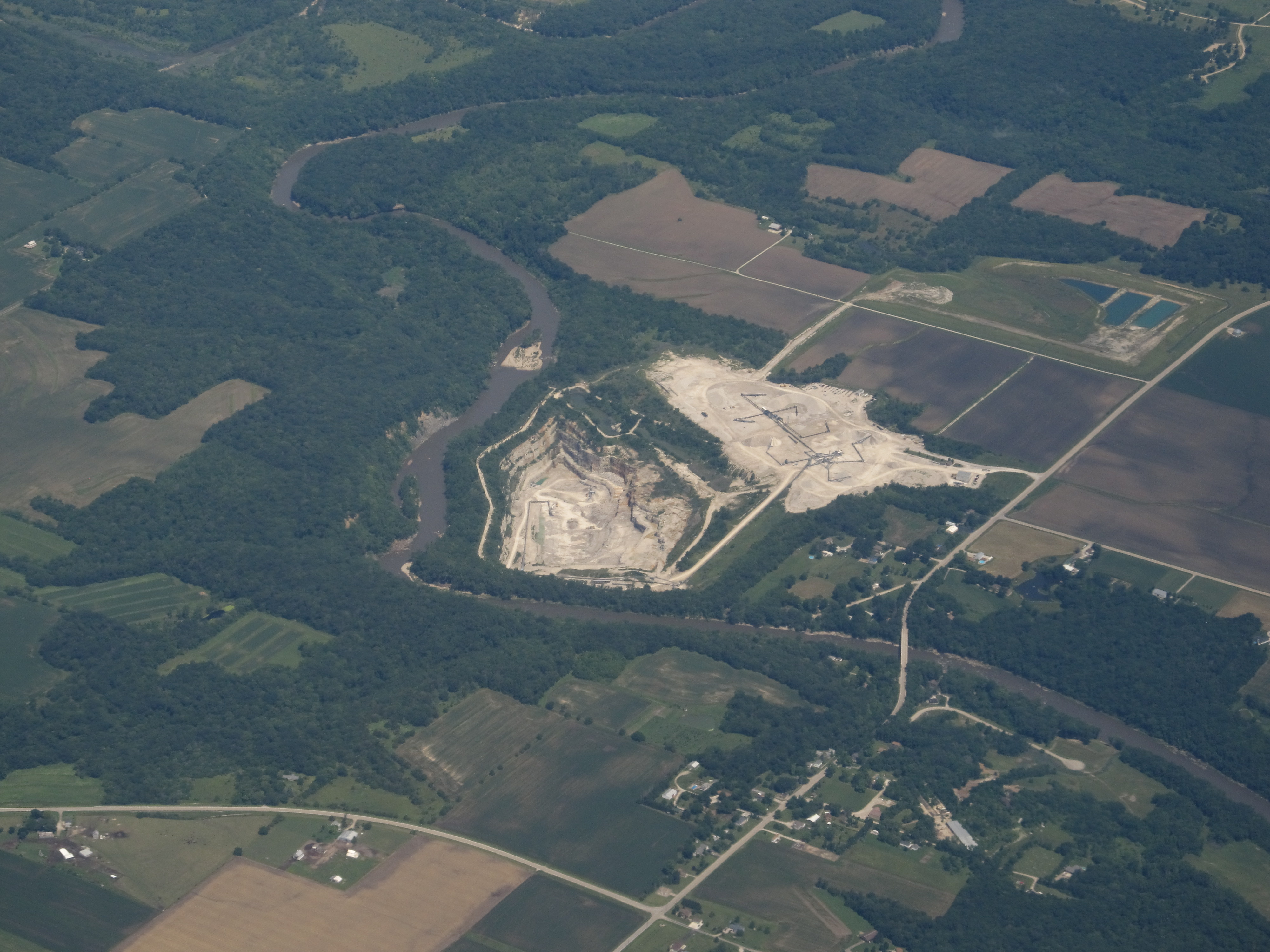 Tonica is a village in LaSalle County, Illinois, United States. The population was 685 at the 2000 census. It is part of the Ottawa–Streator Micropolitan Statistical Area. Tonica is mainly farmland, with a few businesses.